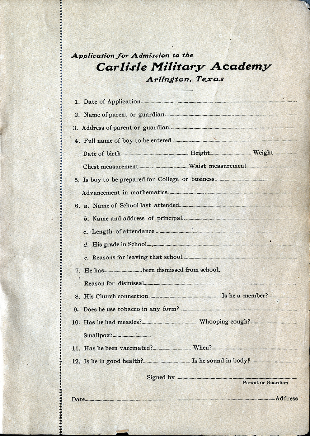 Application for Admission form at back cover of Carlisle Military Academy Annual Announcement.